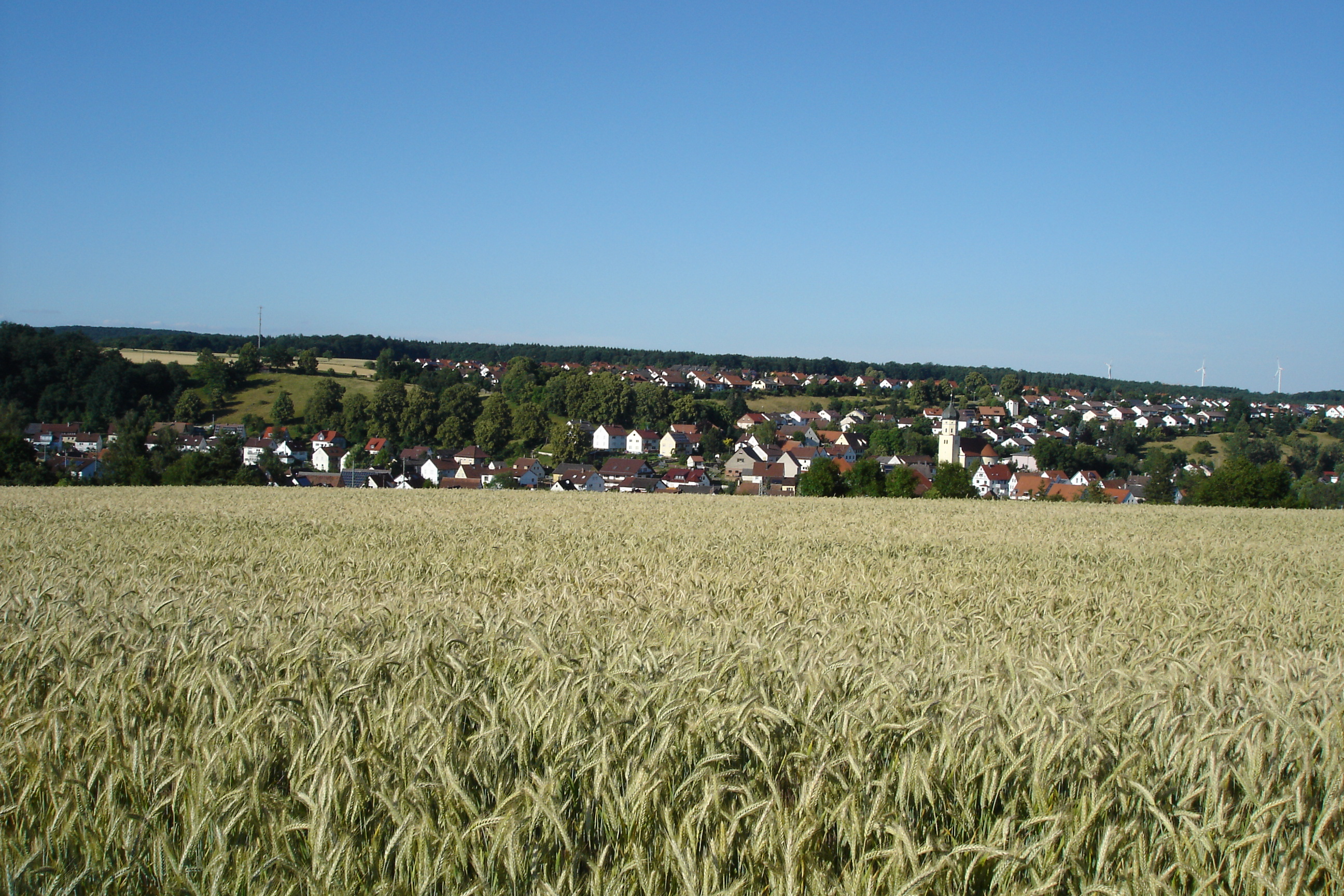 Westerstetten: view of the main part of the village.